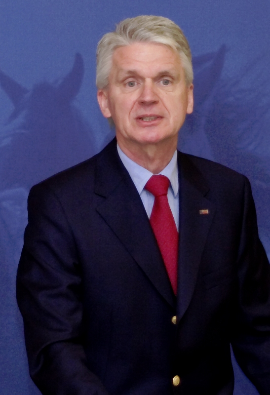 Dr. Josef Schlarmann, German politician (Christian Democratic Union (CDU) of Germany), chairman of the Mittelstands- und Wirtschaftsvereinigung, an economic organization of the CDU.